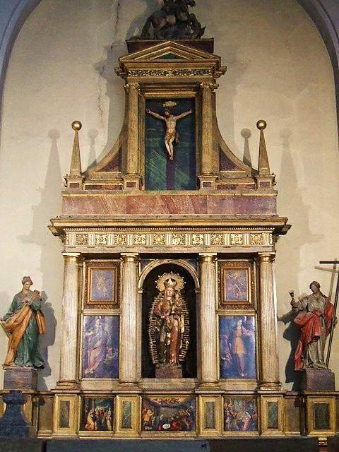 Retablo de la Capilla del Rosario en la Basílica del Pilar de Zaragoza